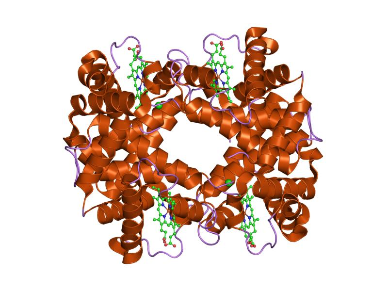 Cartoon representation of the molecular structure of protein registered with 1hba code.